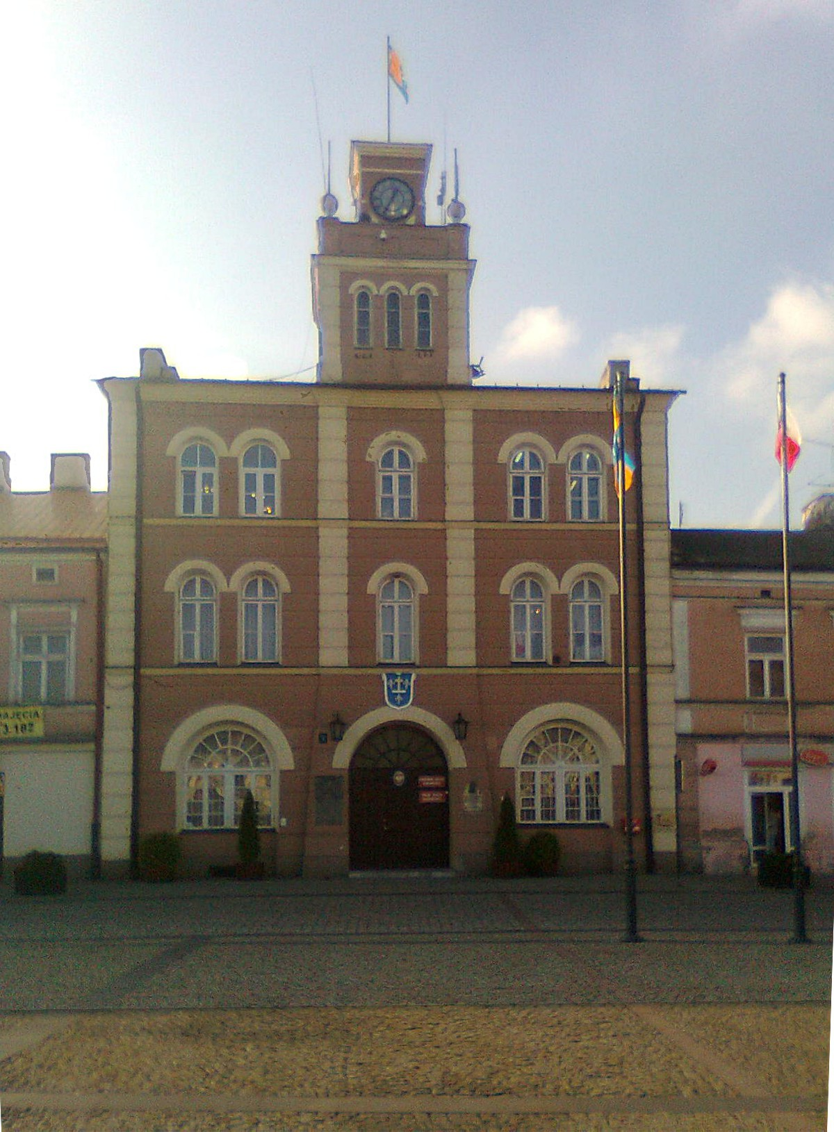 Skierniewice - town hall